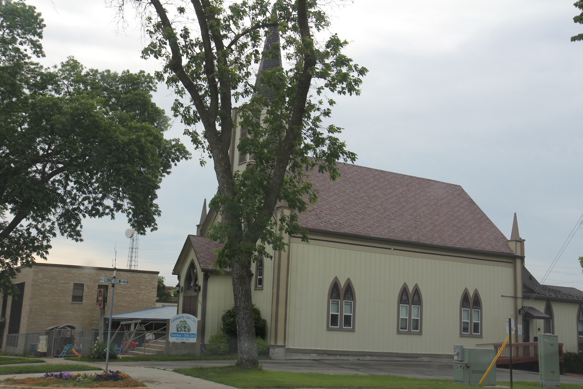 The St. Mark's Episcopal Church (Beaver Dam, Wisconsin), listed on the National Register of Historic Places.